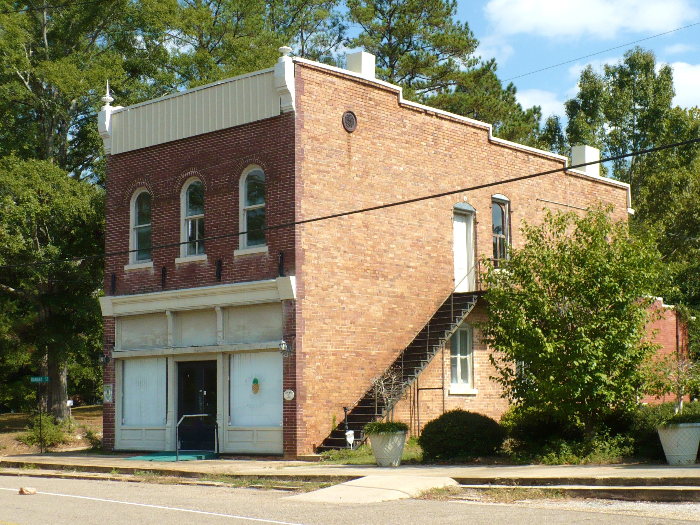 The former Bank of Pine Apple in Pine Apple, Wilcox County, Alabama.